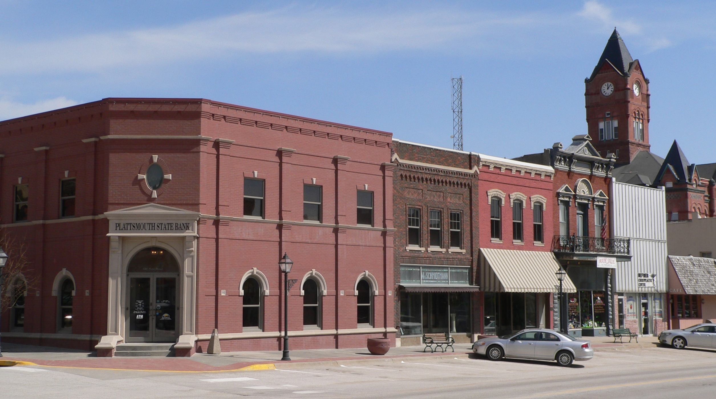 North (even-numbered) side of the 400s block of Main Street in Plattsmouth, Nebraska. The block is part of the Plattsmouth Main Street Historic District, which is listed in the National Register of Historic Places. At upper right is the tower of the Cass County Courthouse, which is also in the National Register.